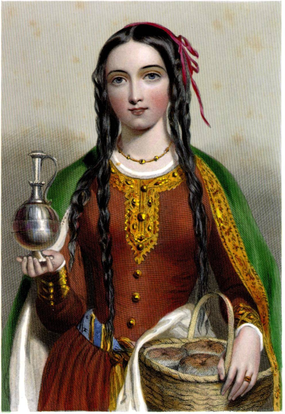 Edith Maud of Scotland, Queen of England